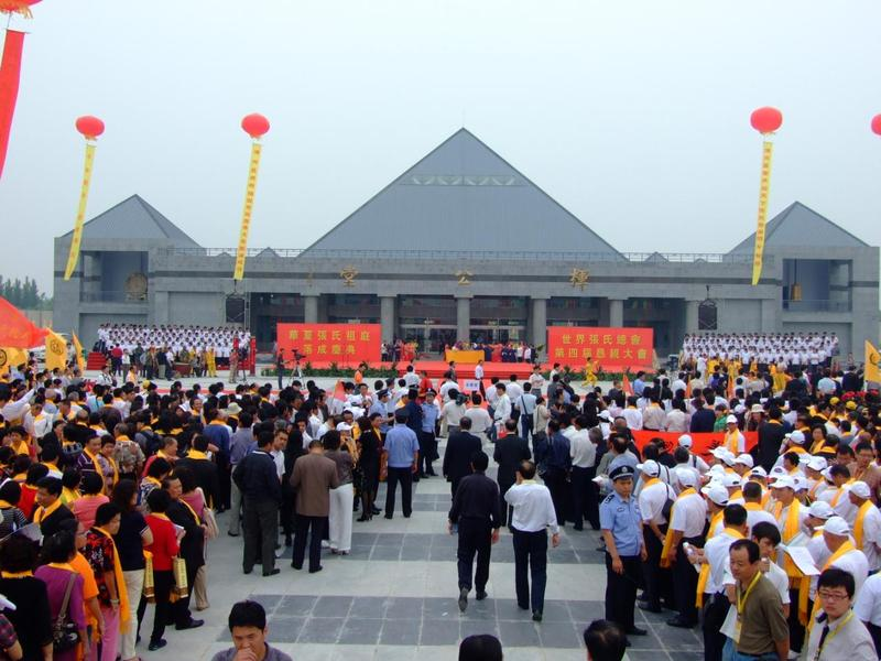 Great Temple of Lord Zhang Hui (张挥公大殿 Zhāng Huī Gōng Dàdiàn) in Qinghe County (清河县), Hebei (河北省)